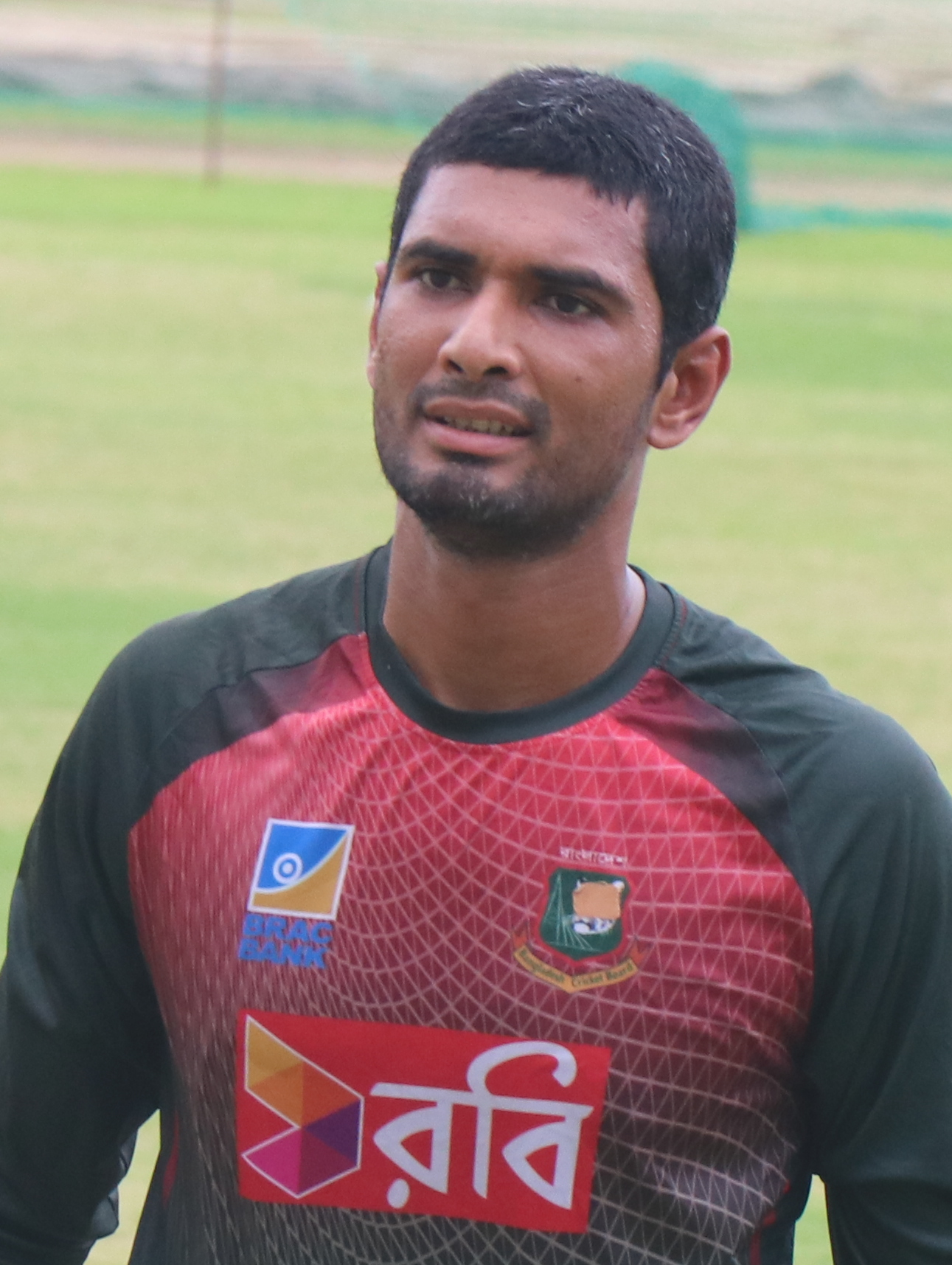 Mahmudullah Riyad on practice session